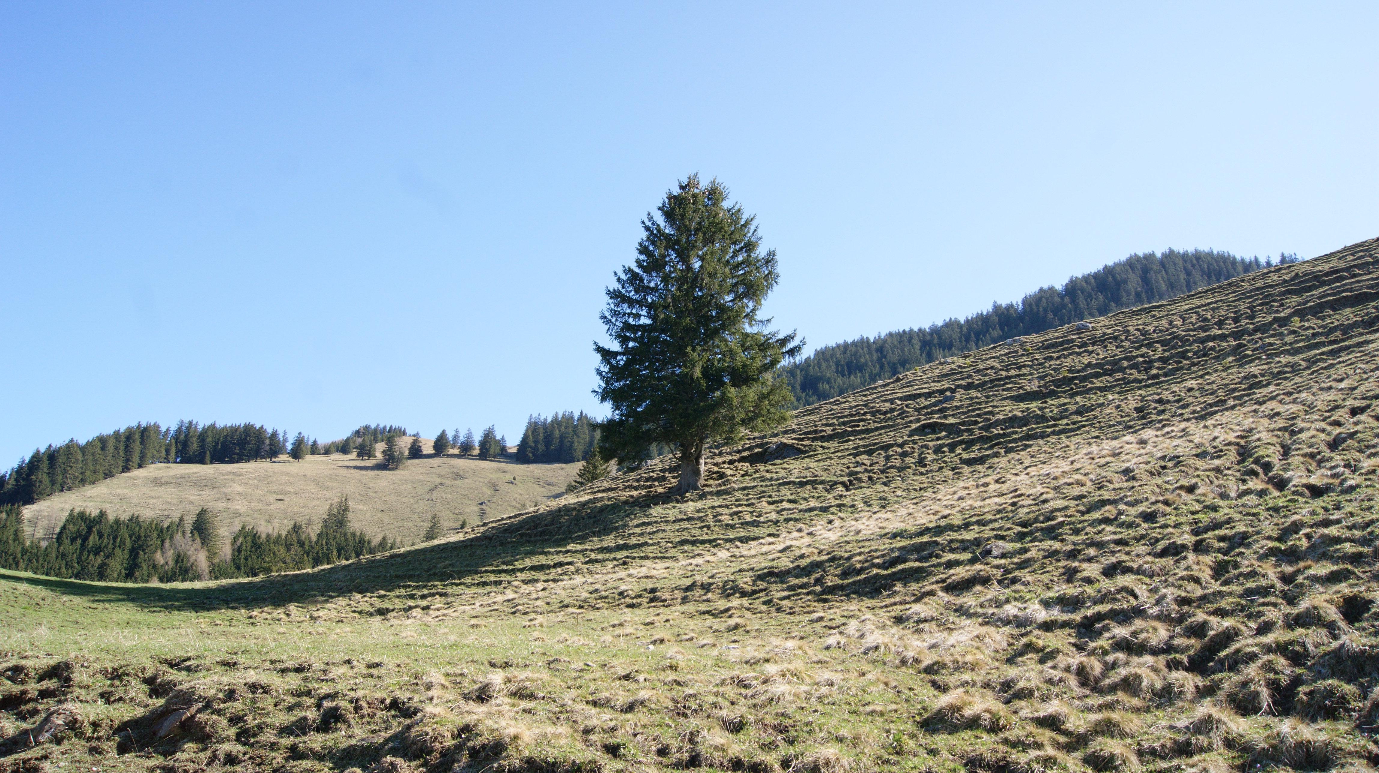 Fir near the Gafaduraalpe, Planken, Principality of Liechtenstein.